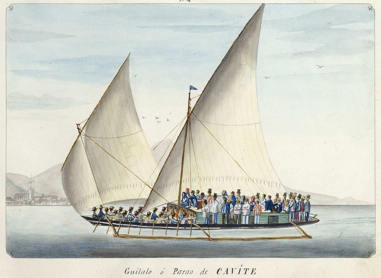 Guilalo, a native outrigger sailboat of Cavite, Philippines